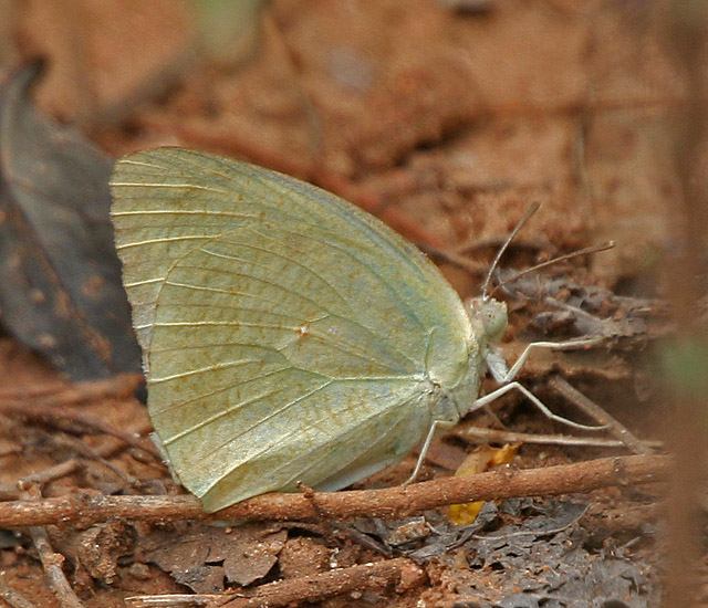 Mottled Emigrant Catopsilia pyranthe in Hyderabad , India.